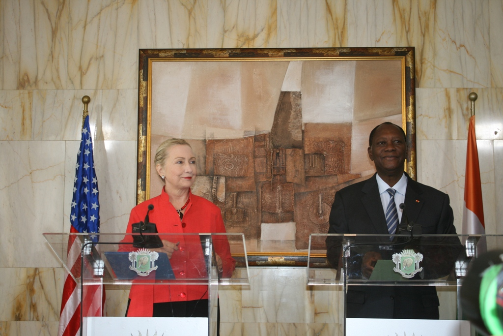 U.S. Secretary of State Hillary Rodham Clinton and Ivoirian President Alassane Ouattara respond to questions from reporters during their joint press conference at the Presidential Palace in Abidjan, Cote d’Ivoire, on January 17, 2012. [State Department photo/ Public Domain]